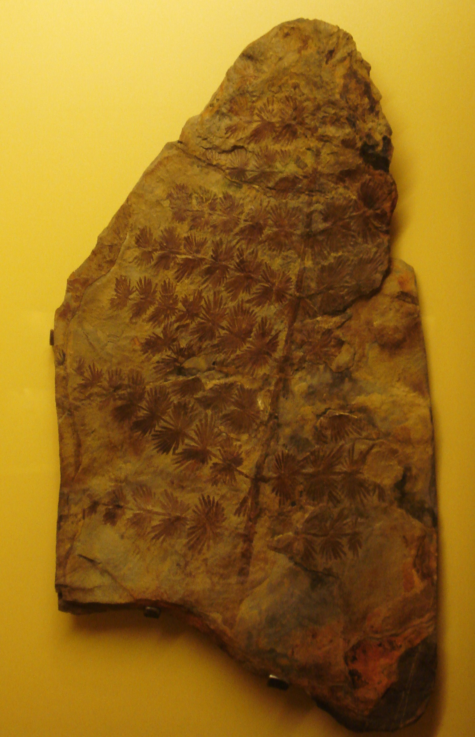 Fossil of Annularia an extinct plant